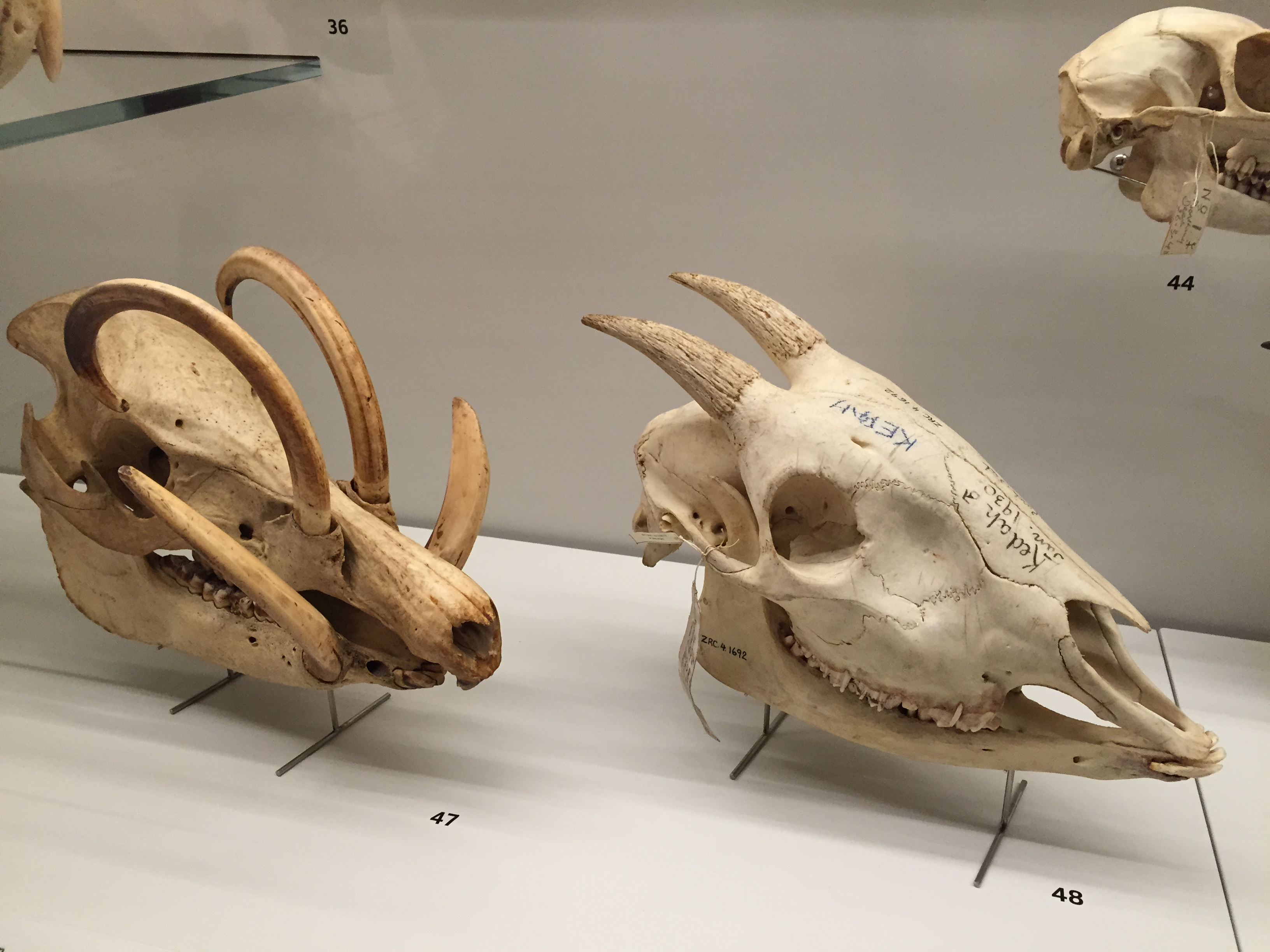 The skulls of a babirusa (Babyrousa sp., left) from Indonesia and a Sumatran serow (Capricornis sumatraensis) from Malaysia in 1930 at the Lee Kong Chian Natural History Museum, National University of Singapore.